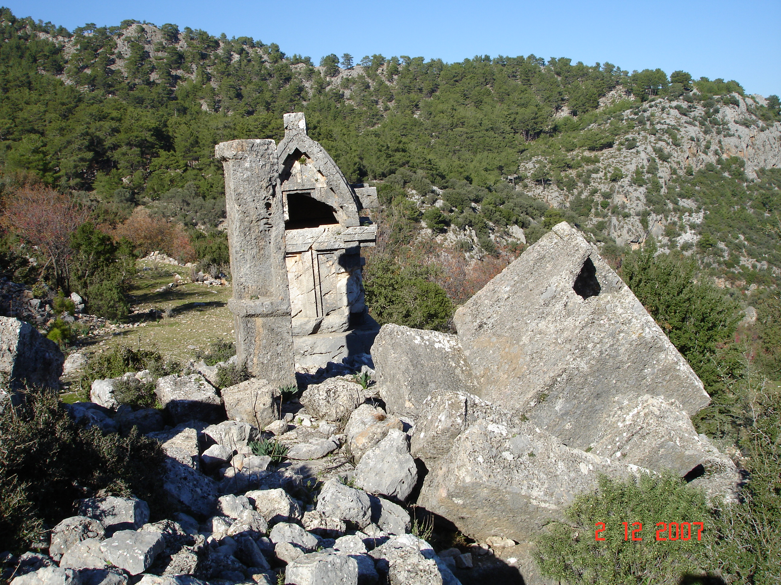 Pinara Ancient Lycian City in Fethiye, Mugla, Turkiye